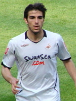 Jordi Gomez